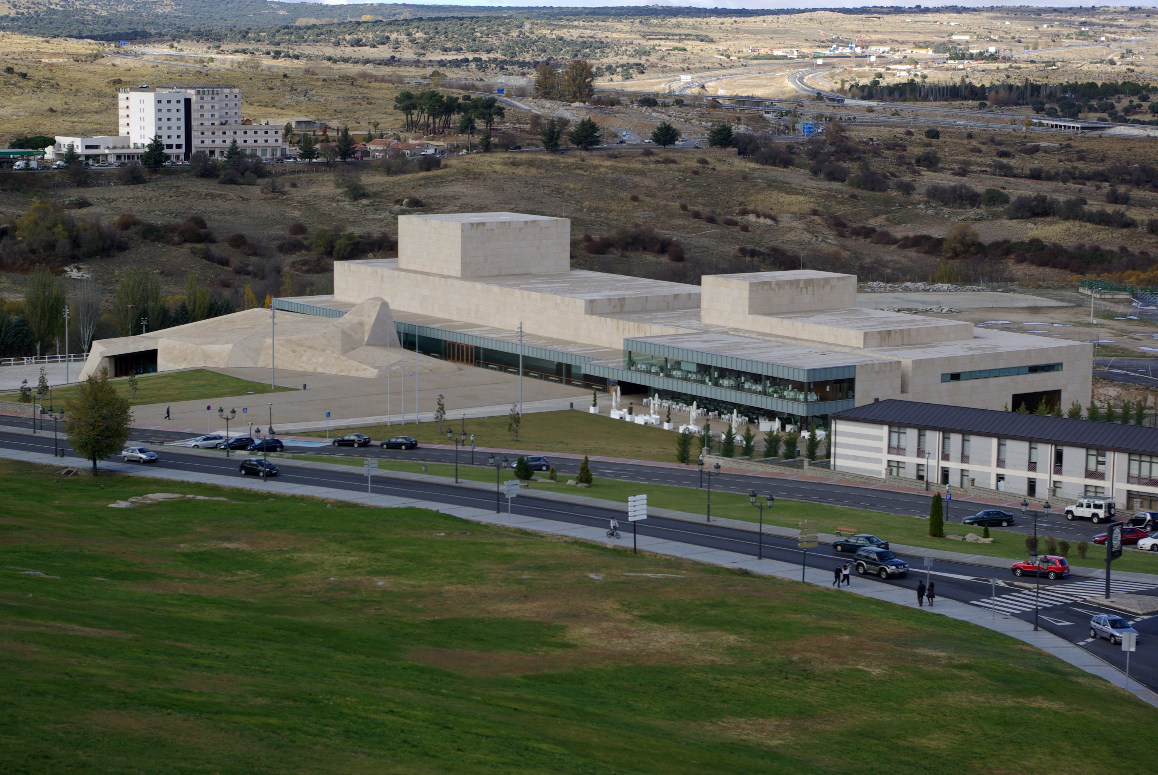 Congress Palace and Exhibition Center of Ávila (Spain).